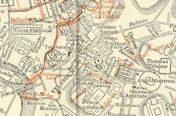 Map of Rome, made by S.B. Platner for his book "The Topography and Monuments of Ancient Rome" published 1911. Cropped to show the Forum, the imperial fora, the Capitol, the Velabrum and the Palatine